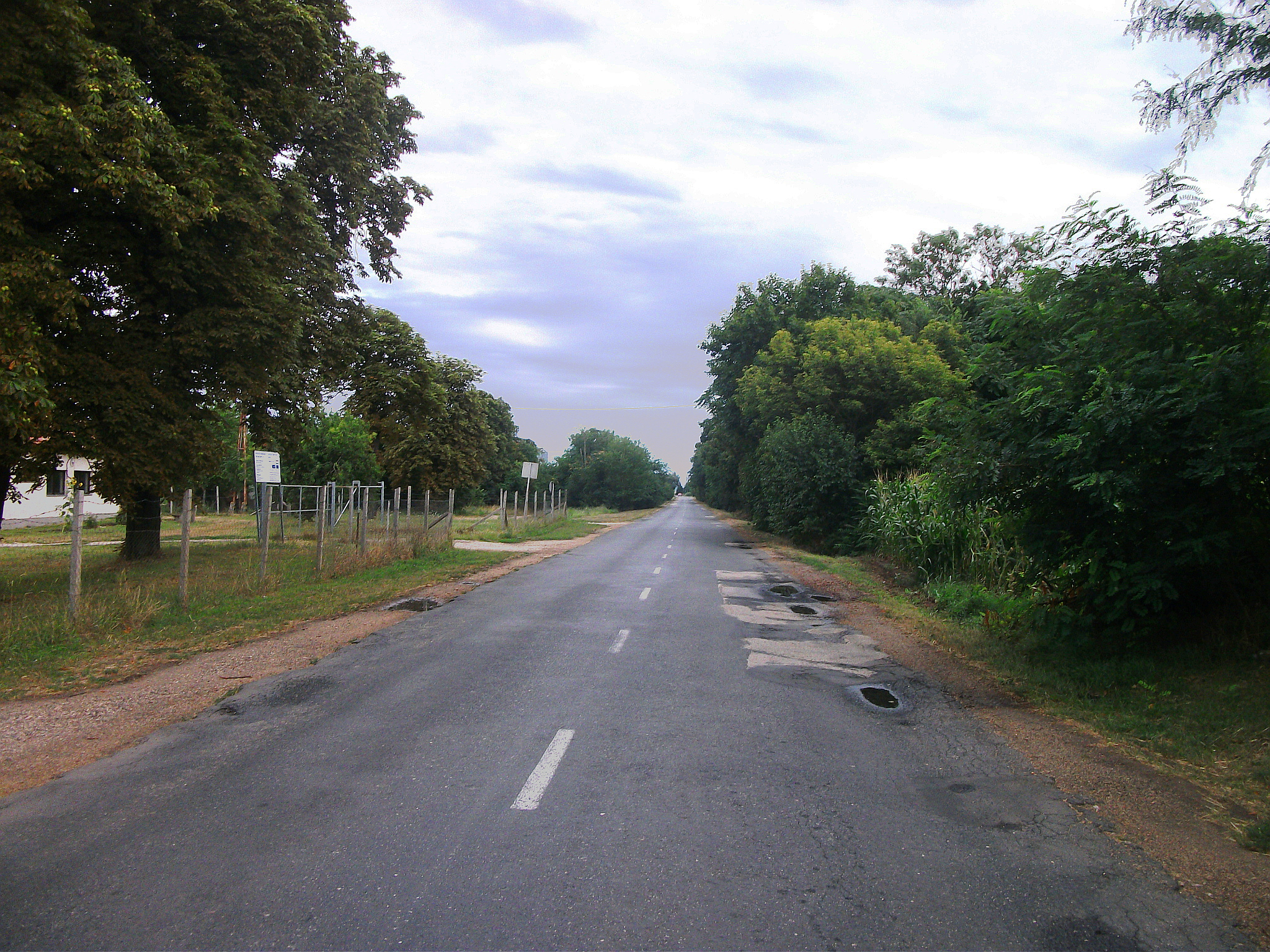 Route 6212 near Zichyújfalu in Hungary.